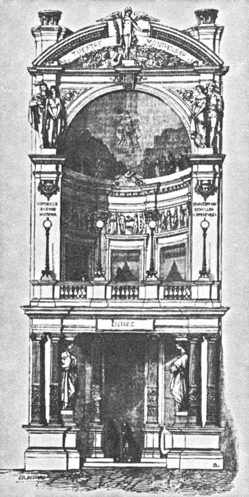 Design for the facade of the proposed Théâtre Montpensier. The theatre was built as a playhouse in 1846 by Alexandre Dumas and was located in Paris on the Boulevard du Temple near the intersection with the Rue du Faubourg du Temple. The project was financed by the Duke of Montpensier, but his father King Louis Philippe I refused to have his son's name attached to the building, and it was renamed to Théâtre Historique before it opened on 20 February 1847. Dumas closed the theatre due to financial difficulties on 20 December 1850. The theatre was later leased to the revived Opéra National, originally founded by Adolphe Adam, but now under the directorship of Edmond Seveste, and underwent minor renovations to convert it to an opera house before reopening on 27 September 1851. The Opéra National changed its name to the Théâtre Lyrique on 12 April 1852.